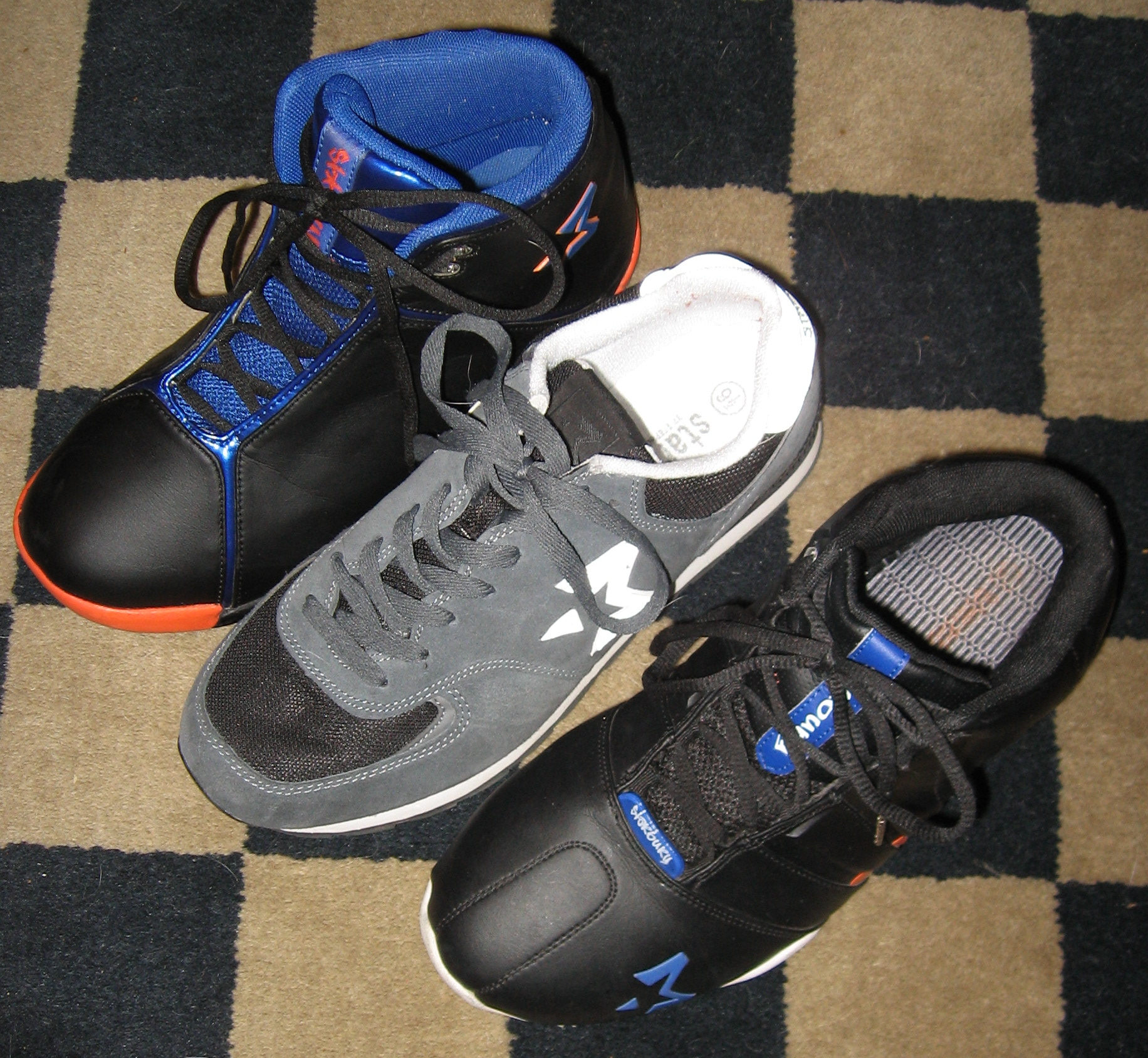 Self-made image of three Starbury sneakers taken on May 21, 2007.